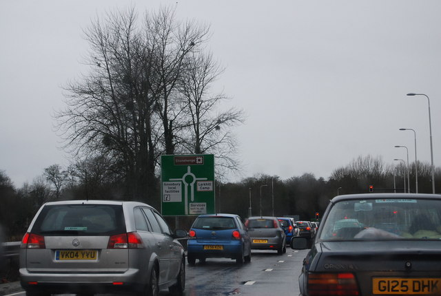 Static traffic, A303